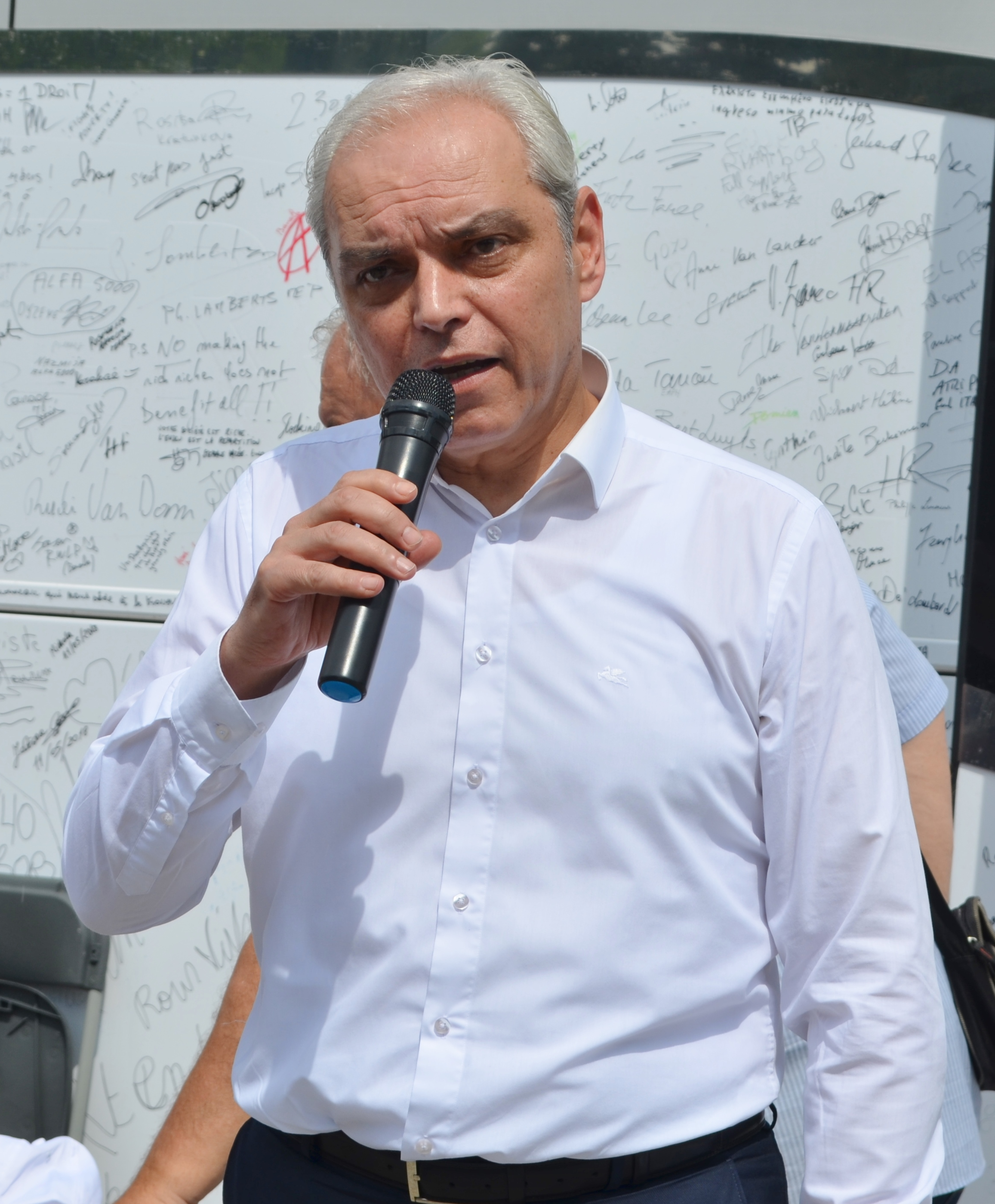 The Mayor of Strumica, Macedonia Kosta Janevski during a speech for the bus tour of promotion of minimum income shames, a campaign supported by the municipality, held in the central park.